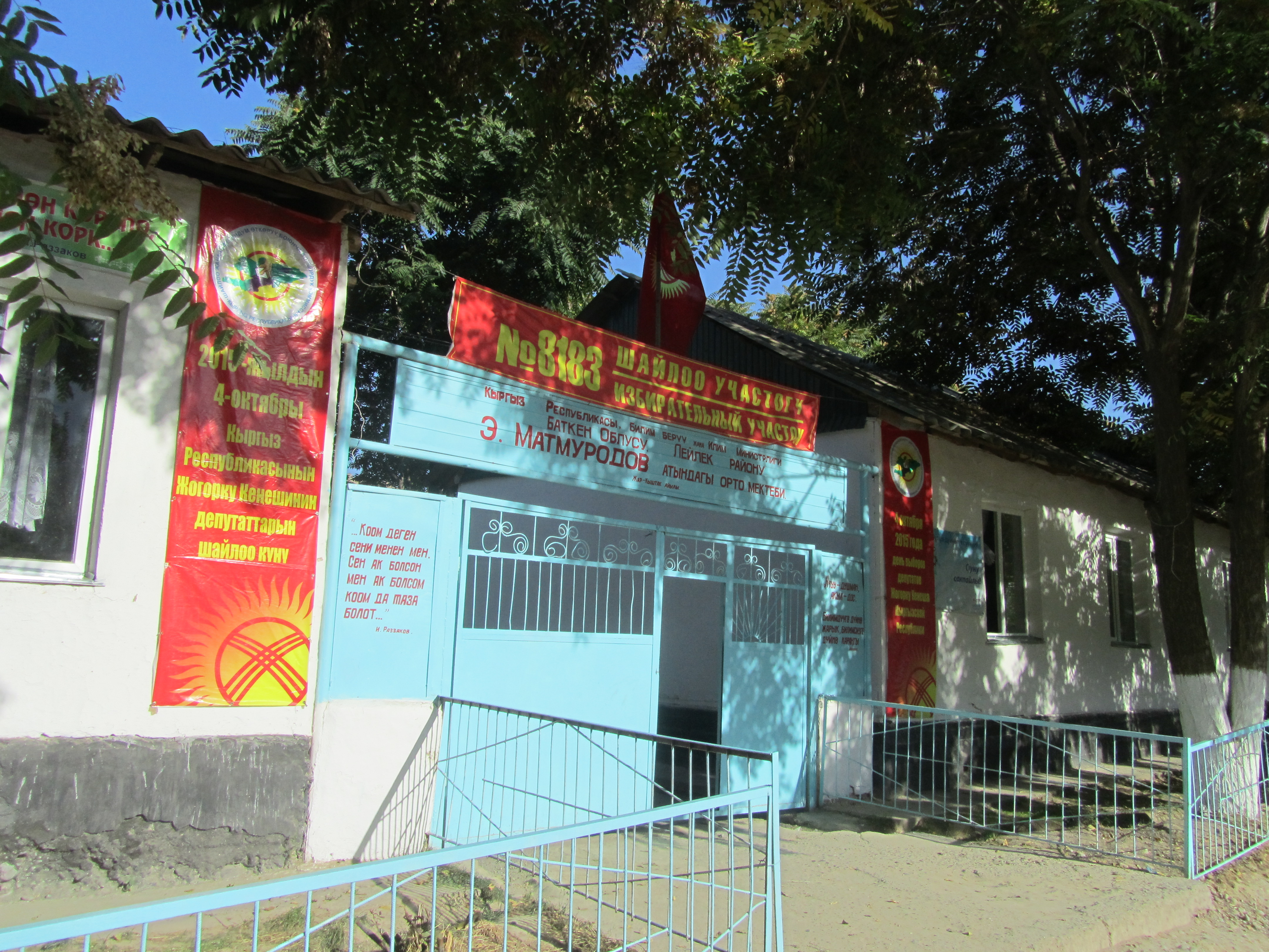 The main entrance to Ermat Matmurodov Secondary School. Leilek District, Kyrgyzstan. The school building will be used as a polling place during the 2015 Kyrgyzstani parliamentary election.